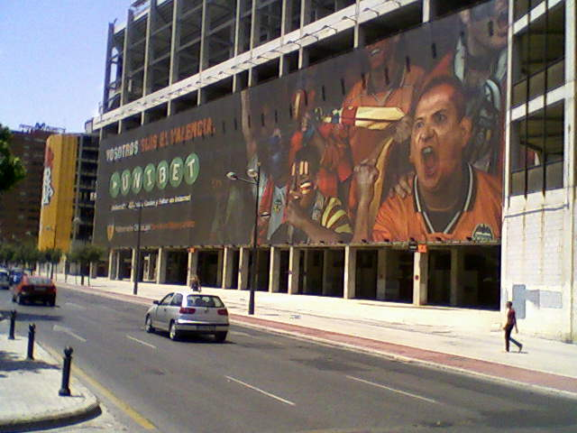 Publicity of Unibet at Mestalla stadium, València